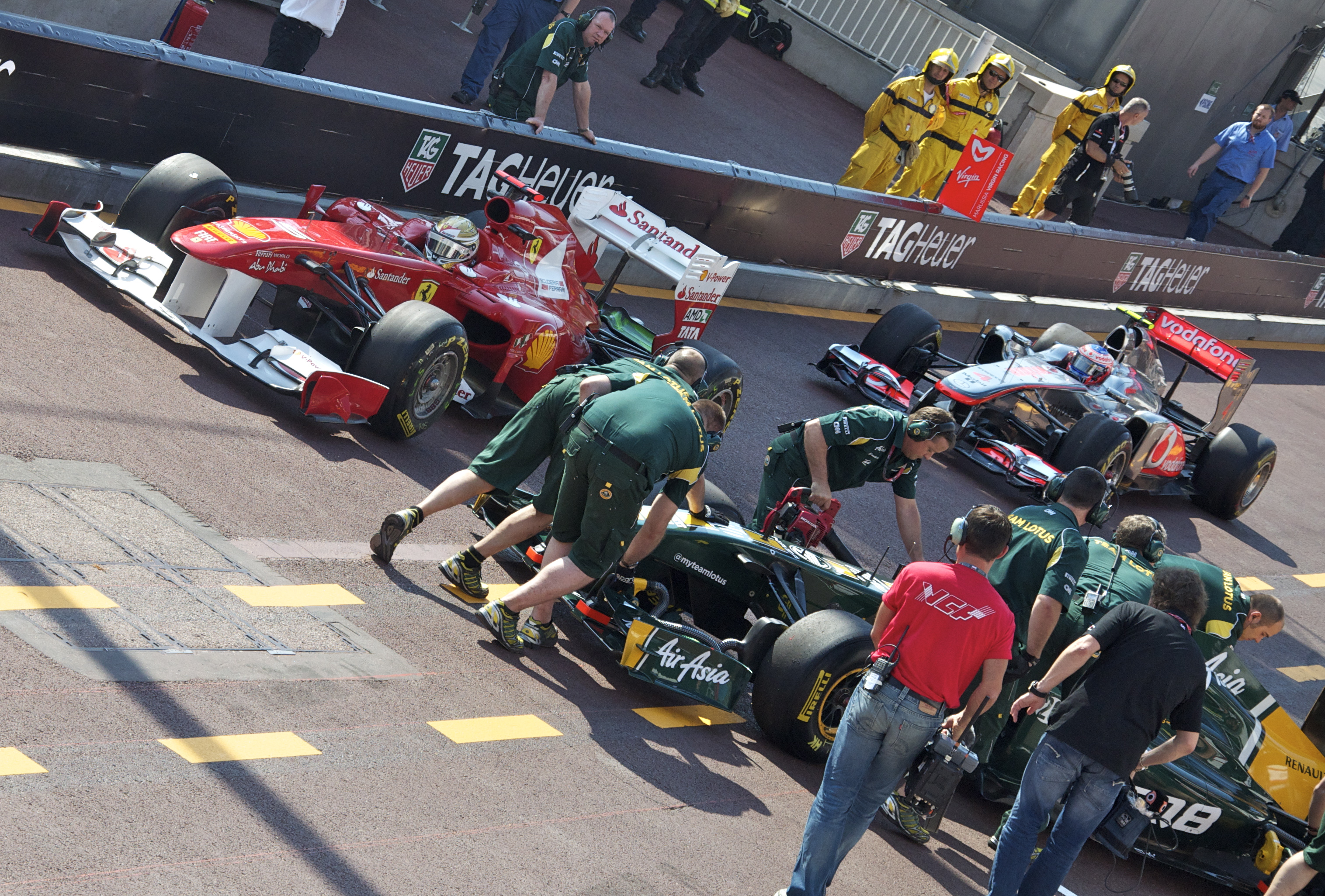 Monaco Grand Prix 2011